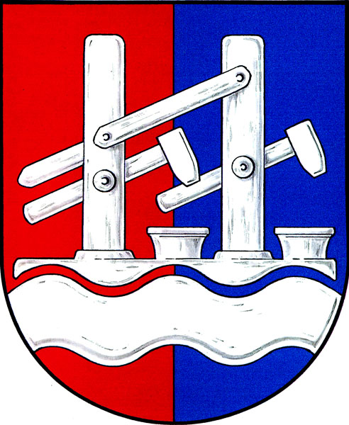 Municipal coat of arms of Nové Hamry village, Karlovy Vary District, Czech Republic.